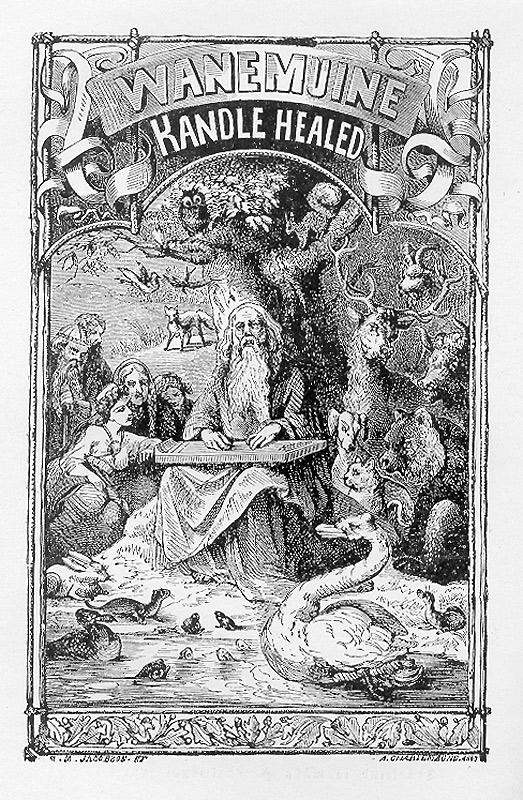 The cover of Wanemuine kandle healed book by Carl Robert Jakobson